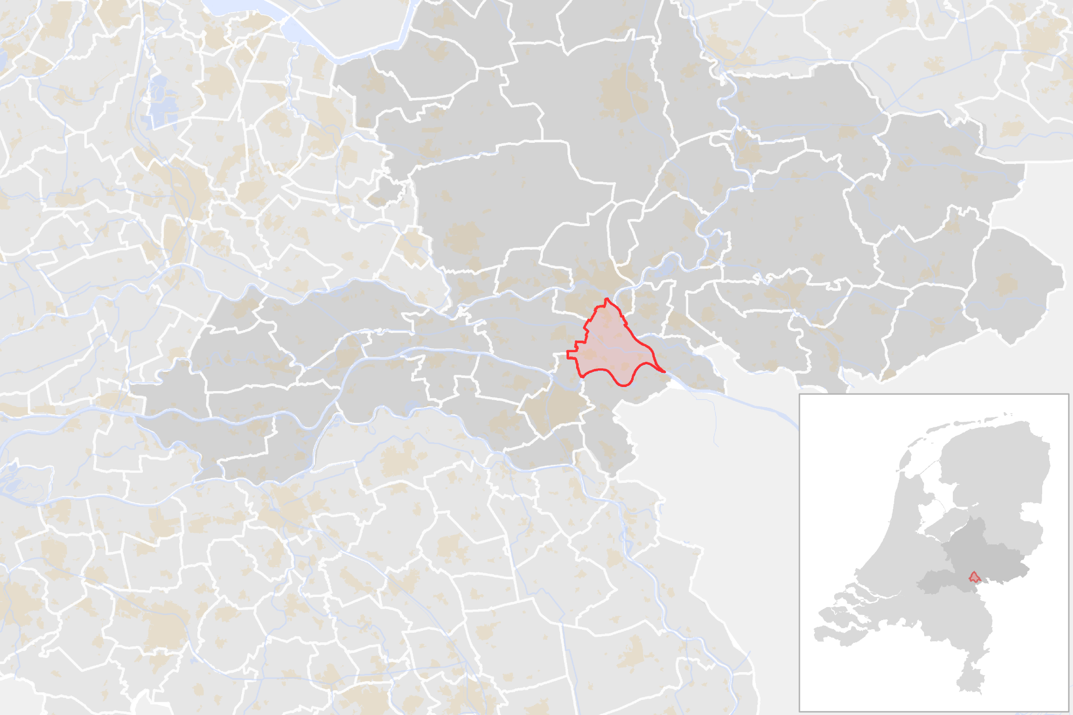 Locator map showing municipality boundary of one of the 390 Dutch municipalities (as of 2016)